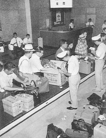 Ryukyu Customs in Naha Airport